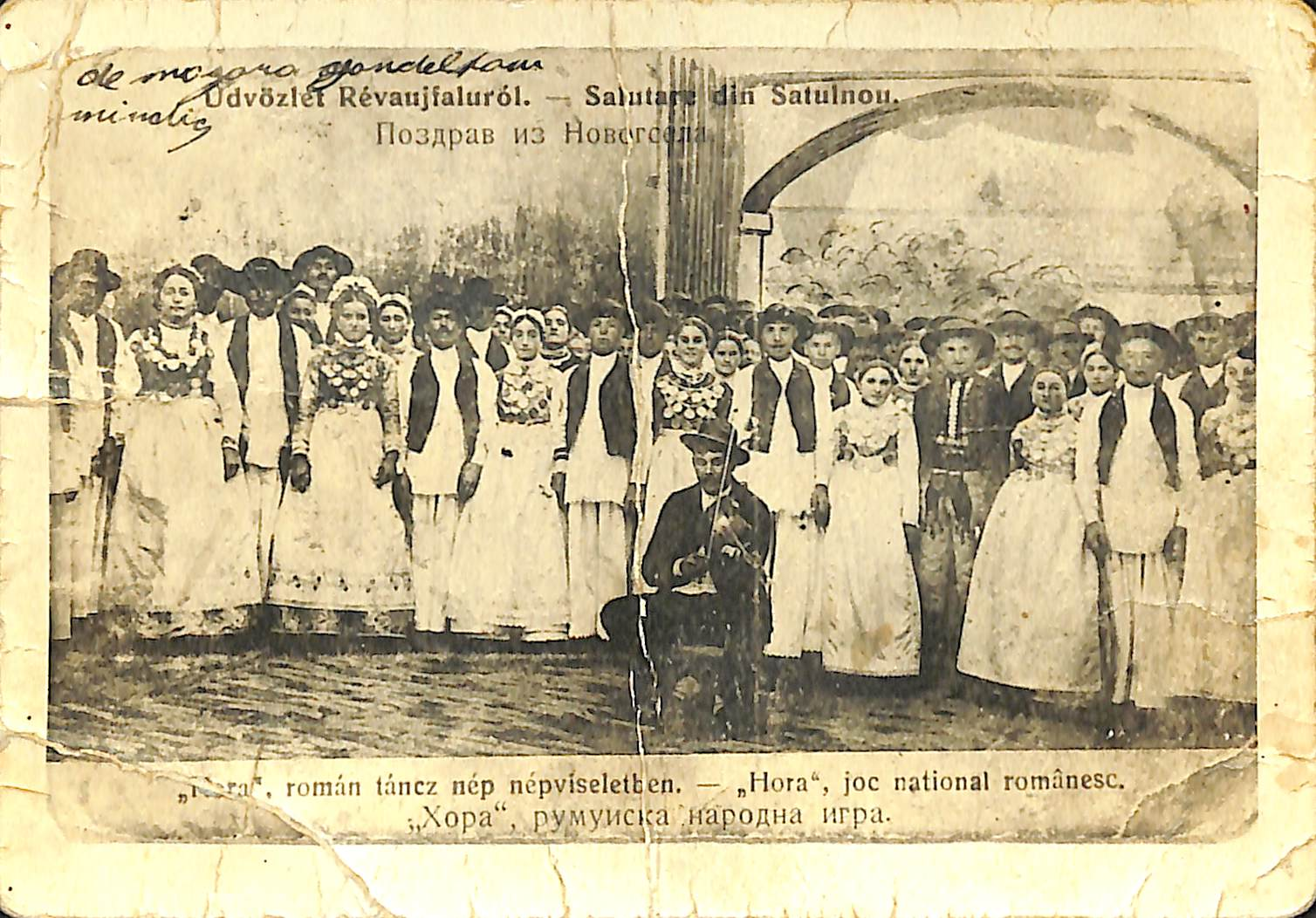 Banatsko Novo Selo, in the picture of people in Romanian costumes